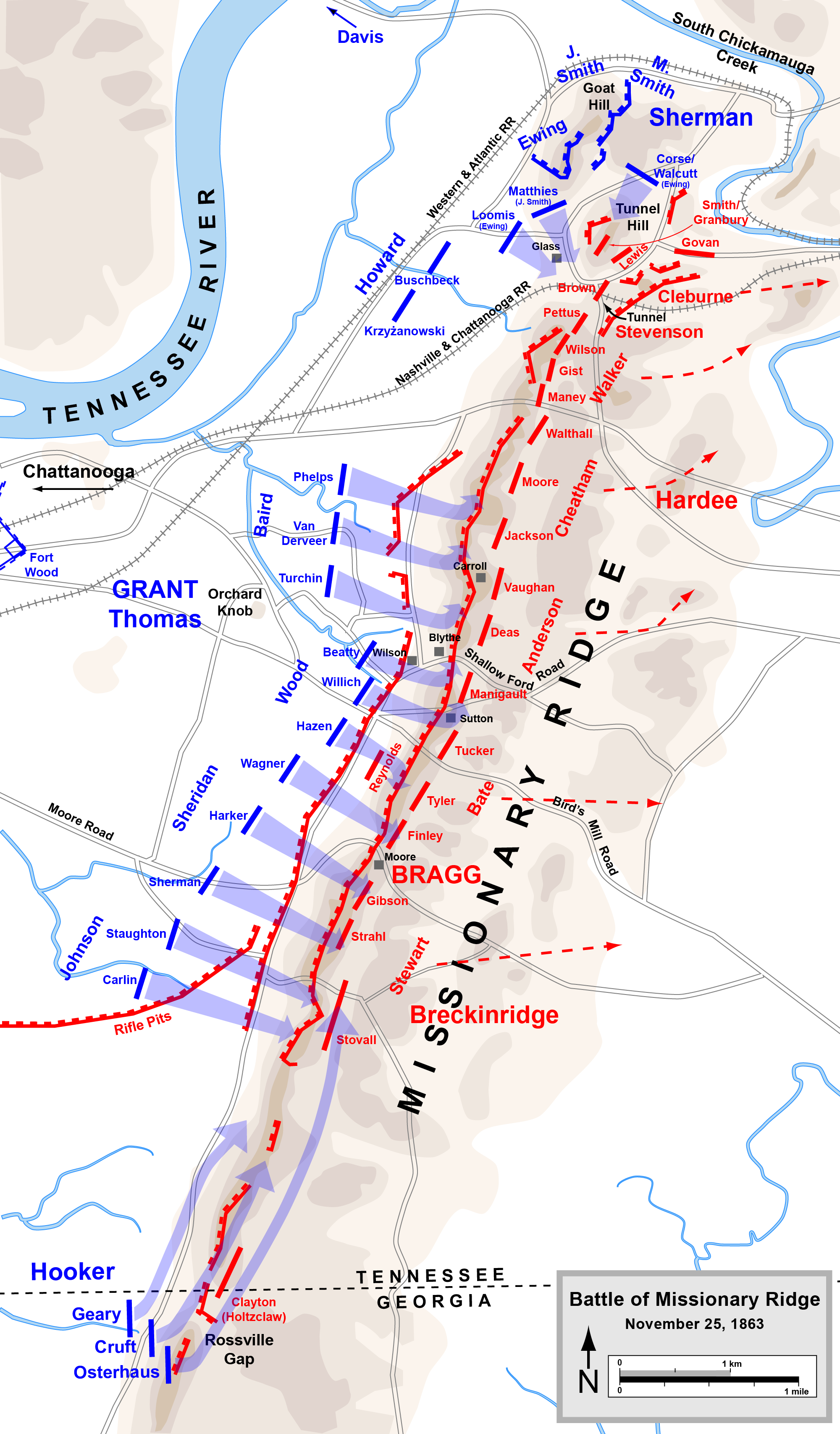 Map of Battle of Missionary Ridge of the American Civil War.